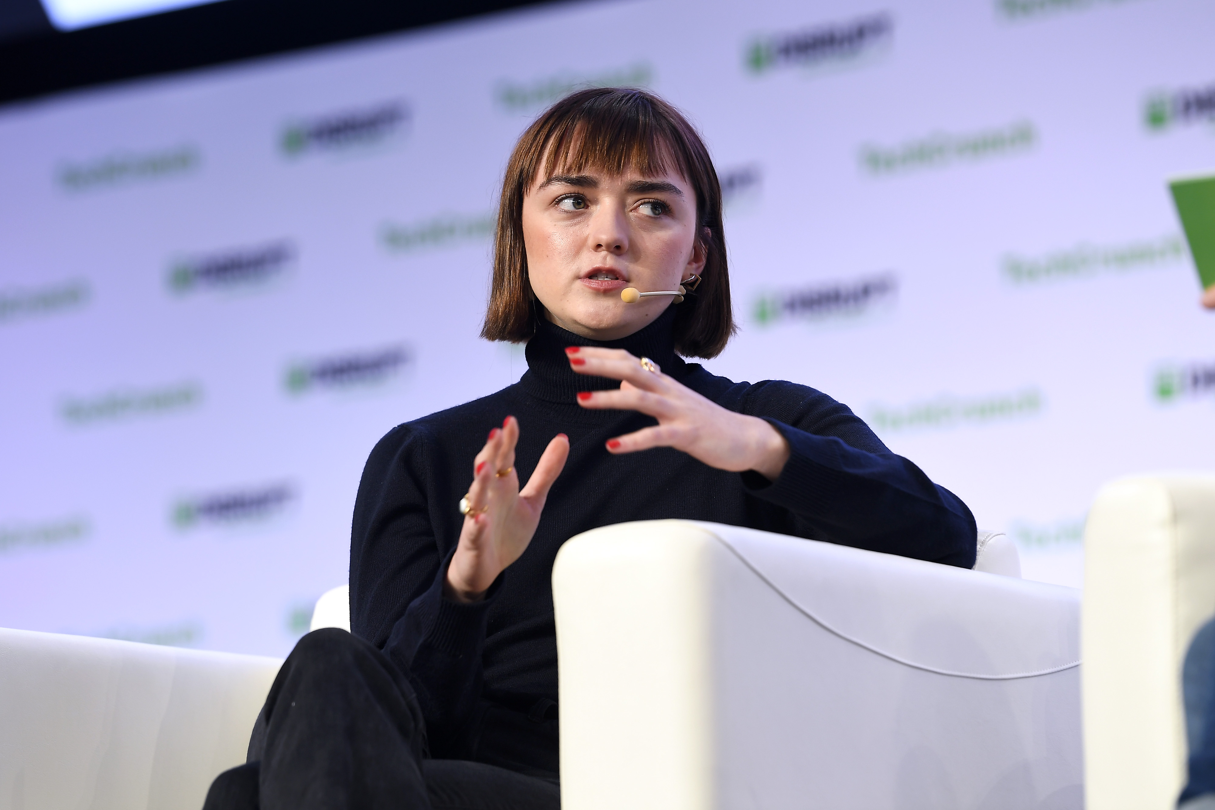 SAN FRANCISCO, CALIFORNIA - OCTOBER 03: Actor Maisie Williams speaks onstage during TechCrunch Disrupt San Francisco 2019 at Moscone Convention Center on October 03, 2019 in San Francisco, California. (Photo by Steve Jennings/Getty Images for TechCrunch)